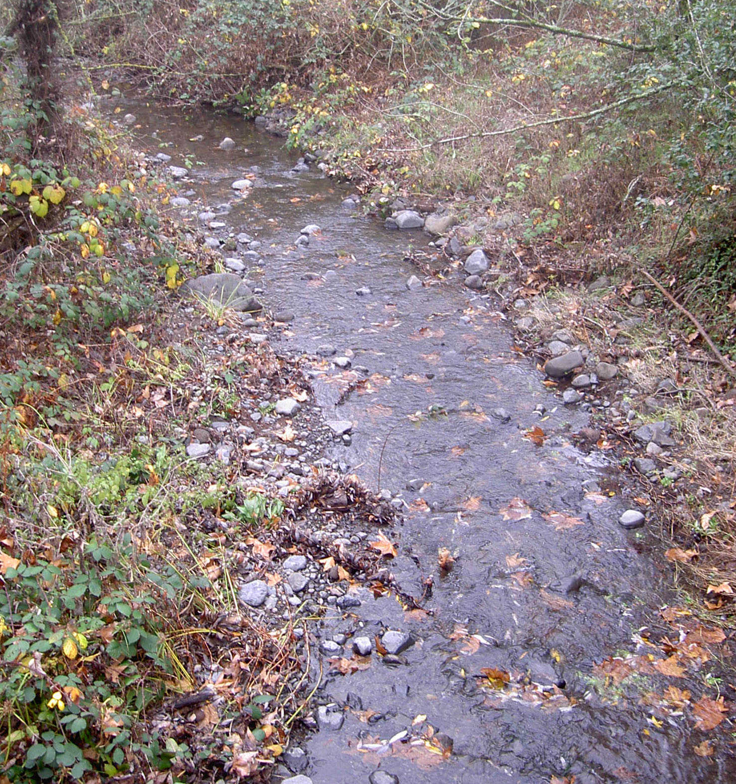 Adobe Creek, California Stepheng3 (talk) 02:48, 31 December 2007 (UTC)